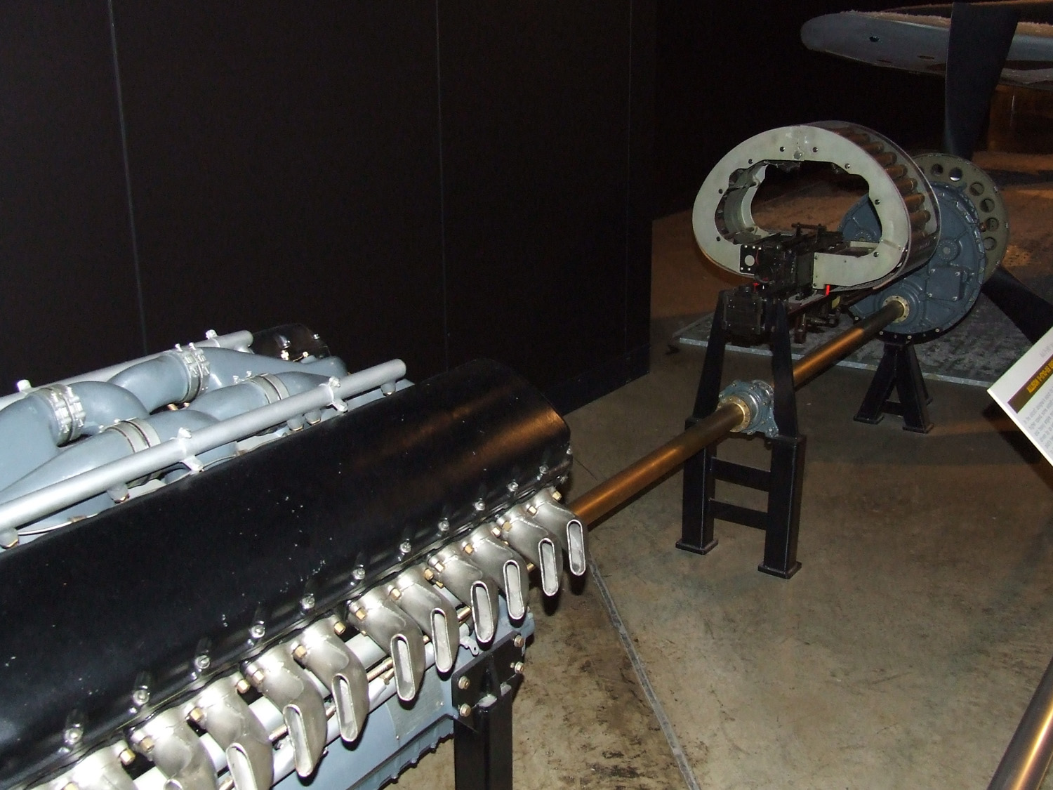 Allison V-1710 with tractor feed to propeller